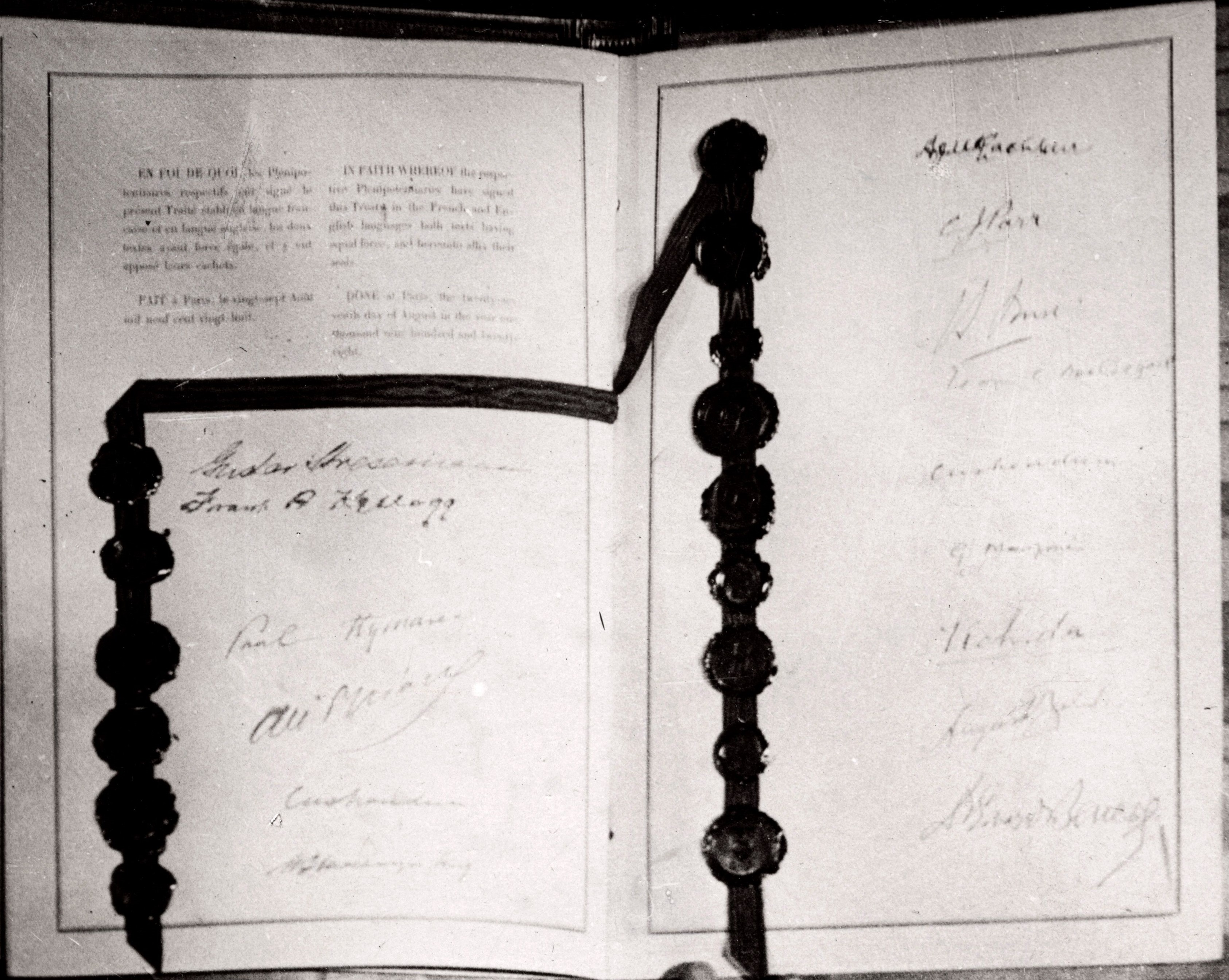 Briand-Kellogg Treaty, with signatures of Gustav Stresemann, Paul Kellogg, Paul Hymans, Aristide Briand, Lord Cushendun, William Lyon Mackenzie King, John McLachlan, Sir Christopher James Parr, Jacobus Stephanus Smit, William Thomas Cosgrave, Count Gaetano Manzoni, Count Uchida, A. Zaleski, Eduard Benes.